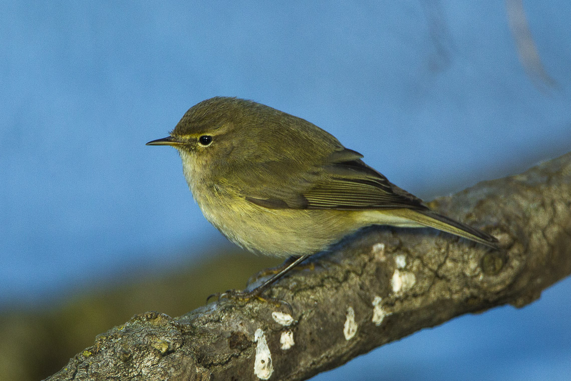 Common Chiff-Chaff - Italy_S4E1681